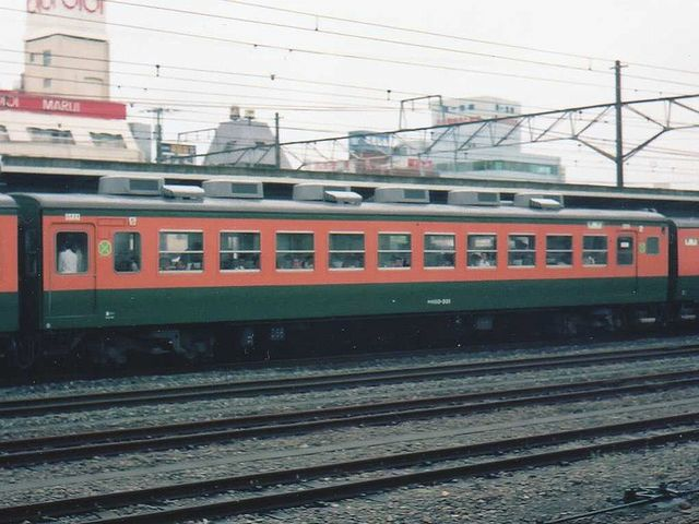 East Japan Railway Company, EMU Type 110 Green Car (First Class Car) Saro110-501 remodeled from Saha165-7. Tokaido Line at Odawara Sta.